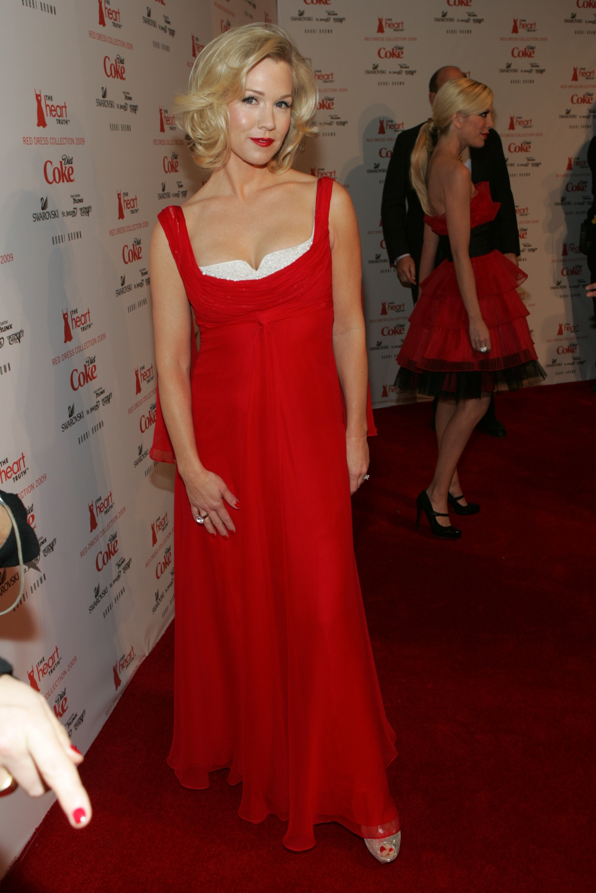 Jennie Garth backstage at The Heart Truth's Red Dress Collection Fashion Show during New York Fashion Week. February 13, 2009 at Bryant Park.